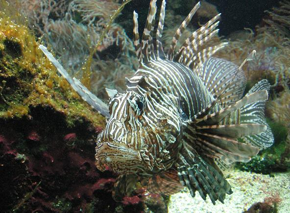 Red lionfish in the Ouwehands Dierenpark Aquarium